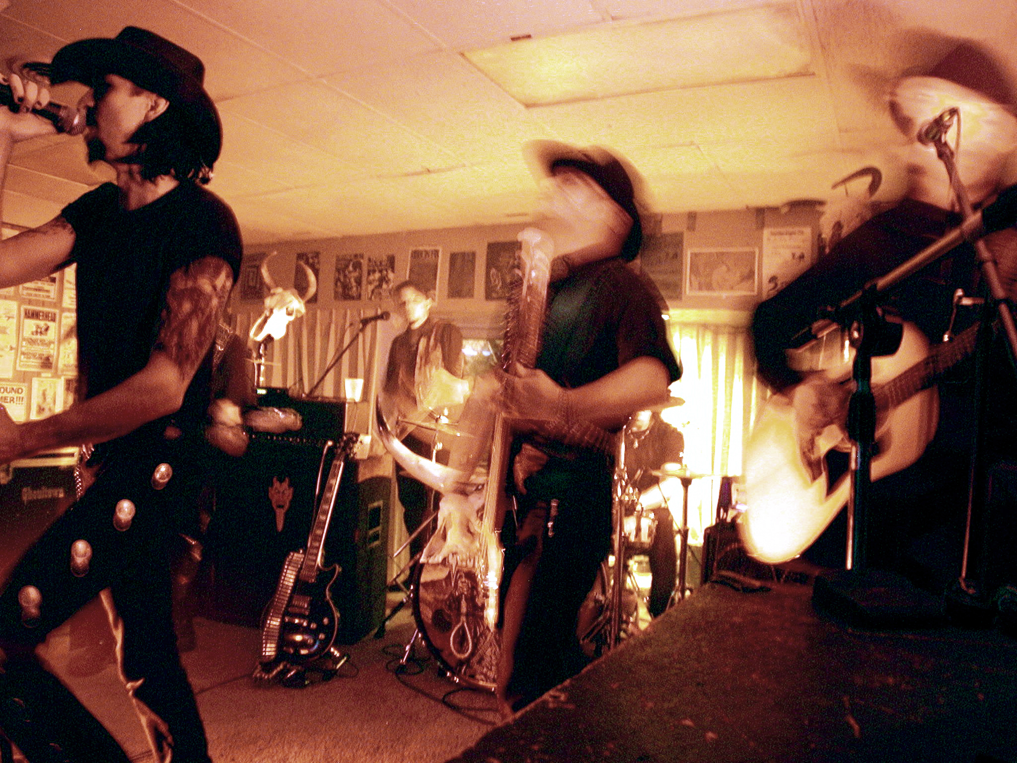 Ghoultown